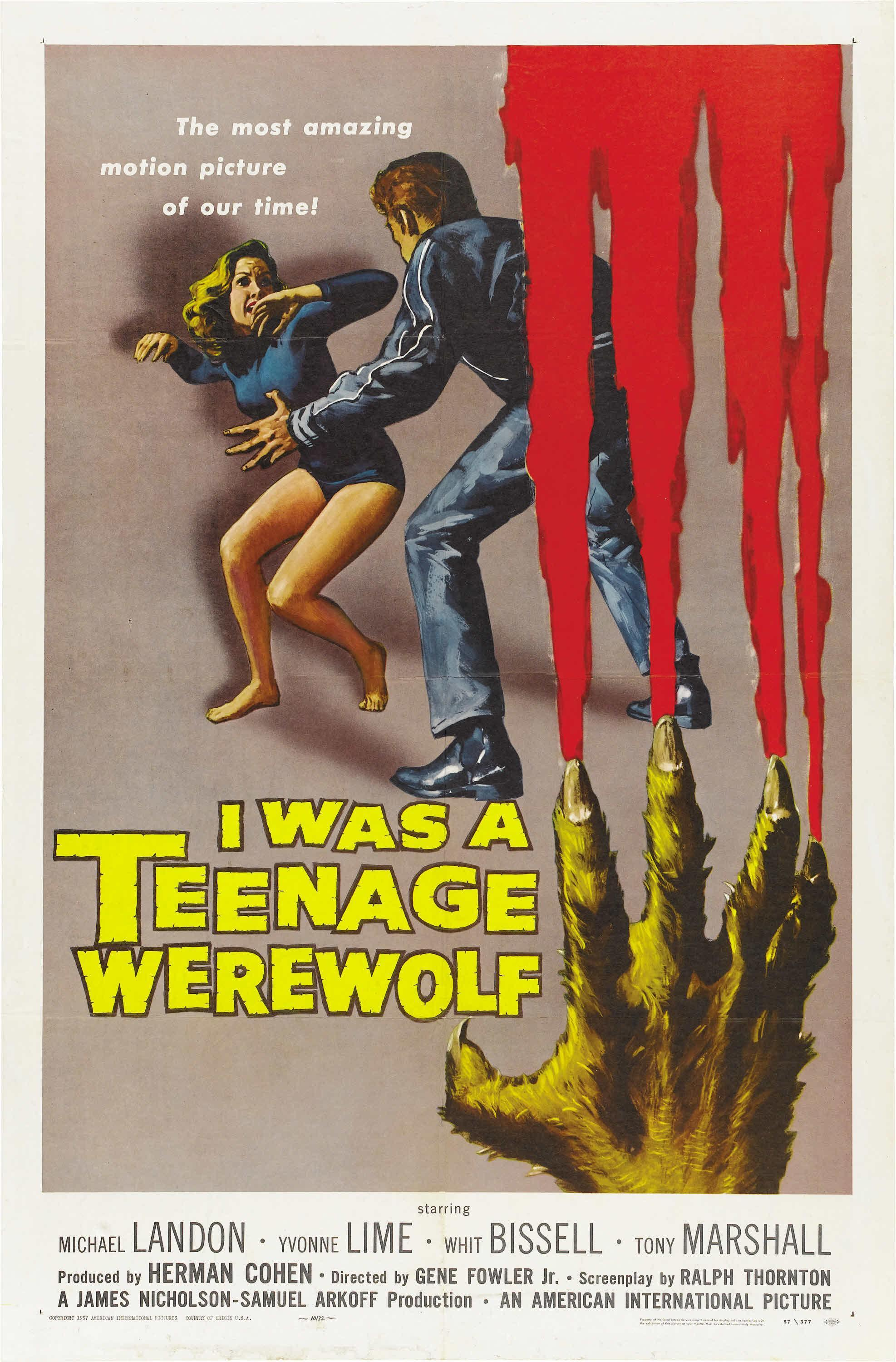 Film poster for the film I Was a Teenage Werewolf (1957).